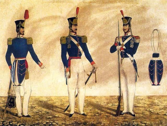 Battalion of Fusiliers of the National Guard (Guarda Nacional) (1840–1845).